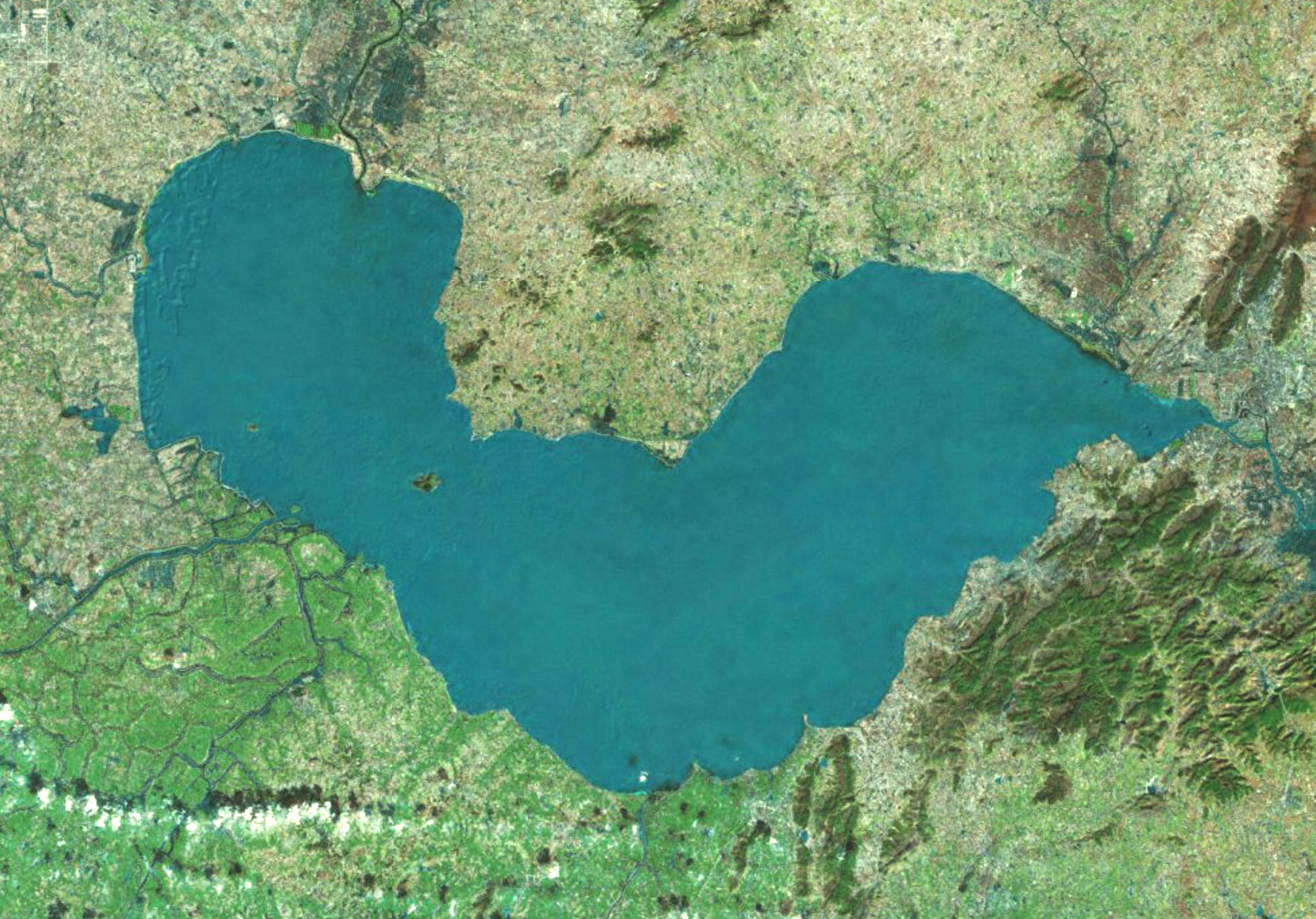 Satellite view of Chao Lake, by NASA World Wind